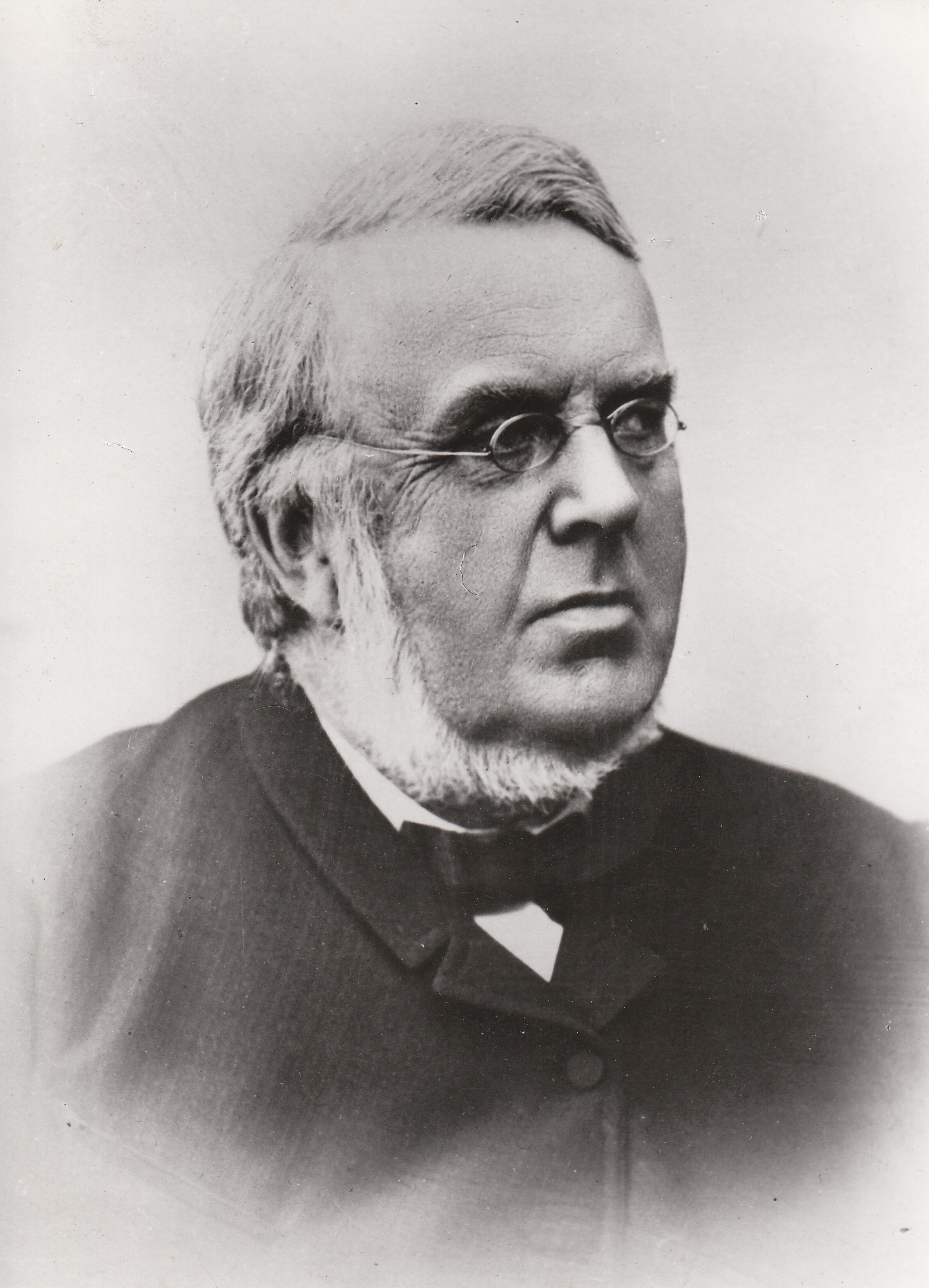 Photograph of Anton Mathias Jenssen. Owner Institution: The Municipal Archives of Trondheim, archive reference: Tor.H41.B39.F2864